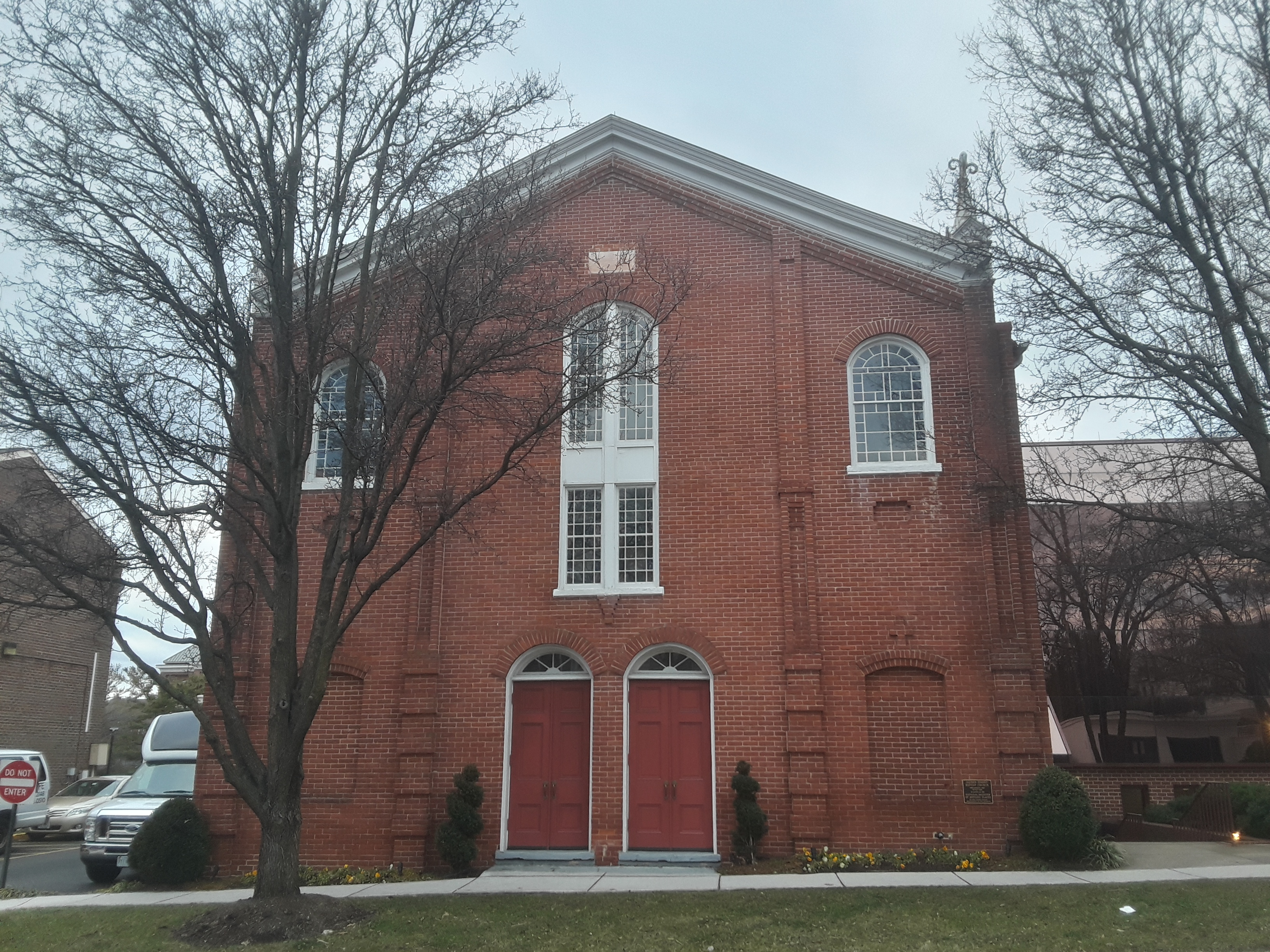 Alfred Street Baptist Church, Alexandria, Virginia